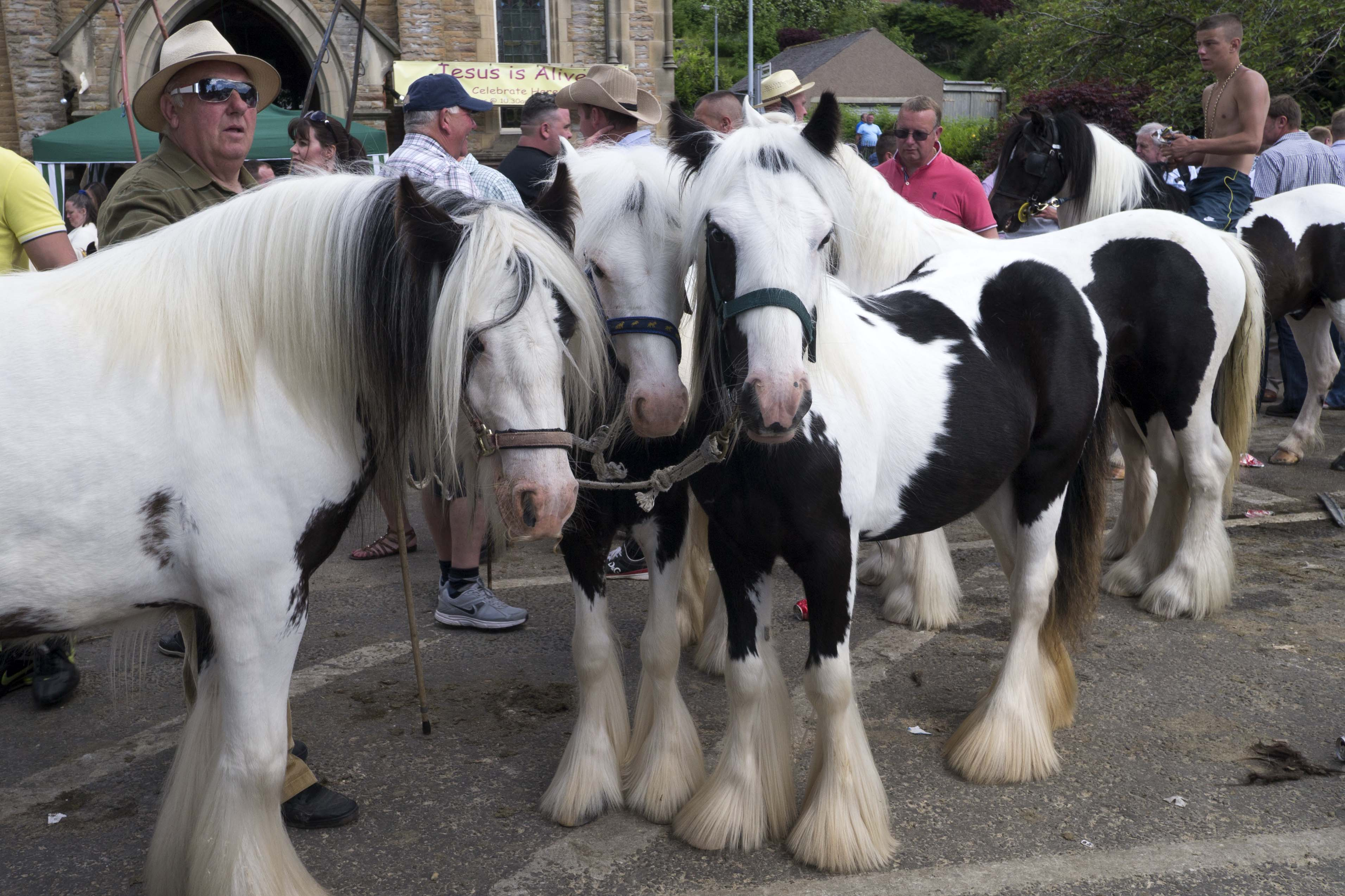 Appleby Horse Fair 2013